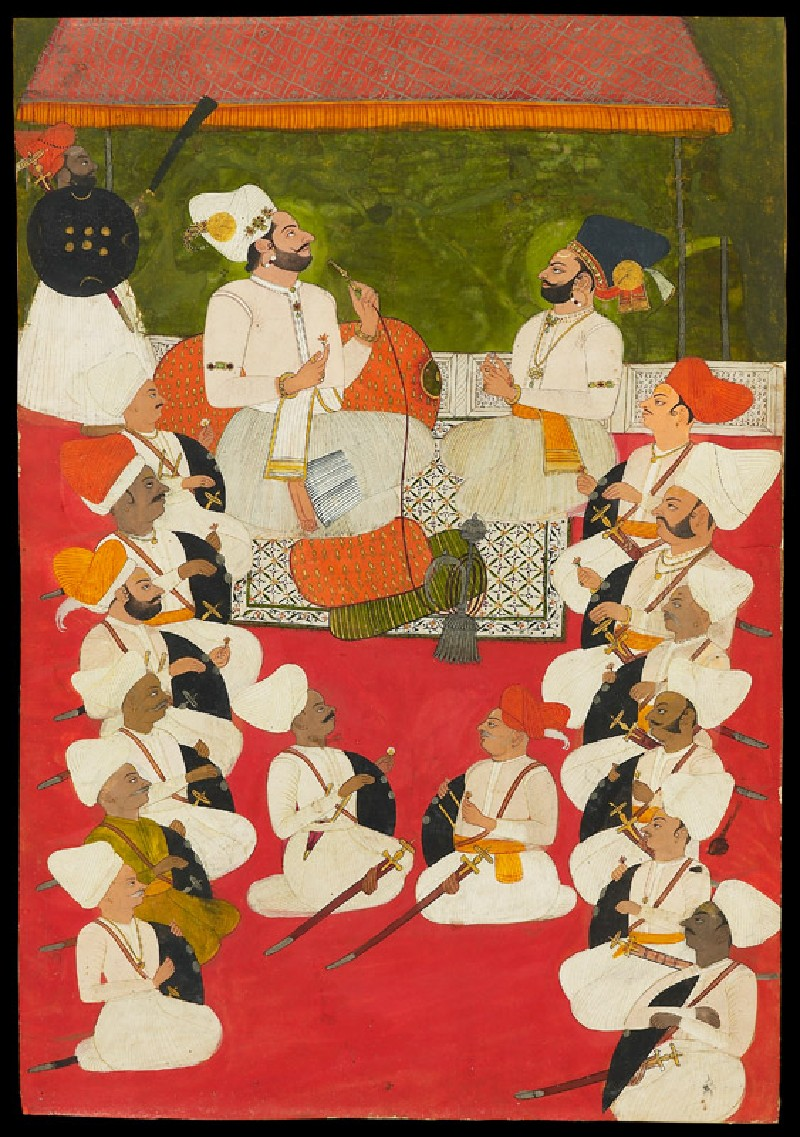 Rathor noblemen in durbar. 1750-60, Jodhpur, Ashmolean Museum